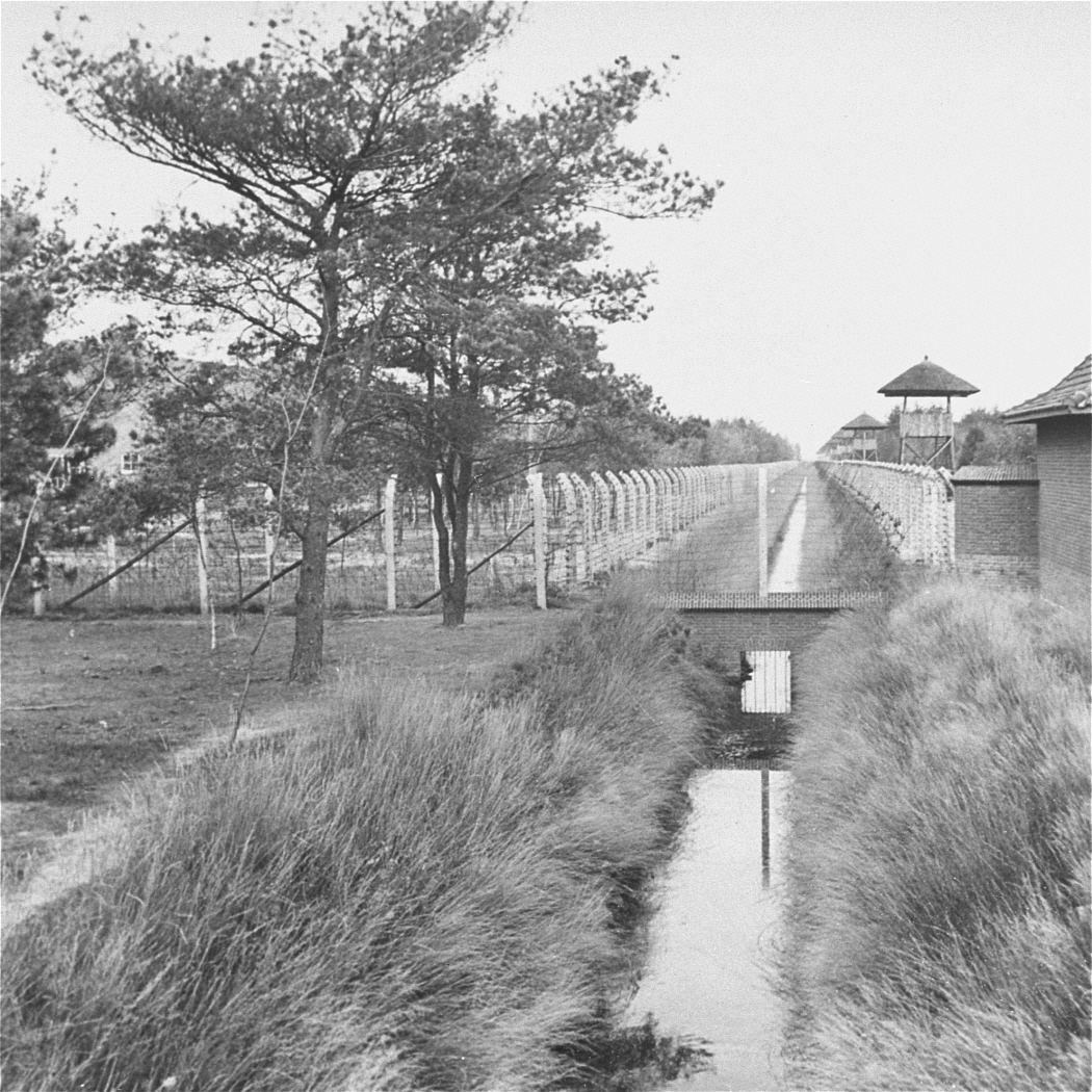 View of a section of the Vught transit camp in Vught, [North Brabant] The Netherlands. (KZ Herzogenbusch)